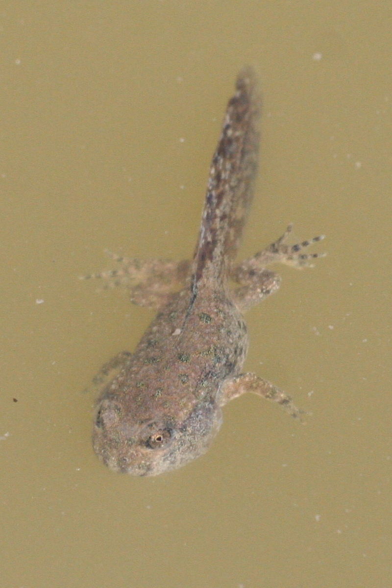 A young, not yet transformed yellow-bellied toad (Bombina variegata), photographed in Weinsberg